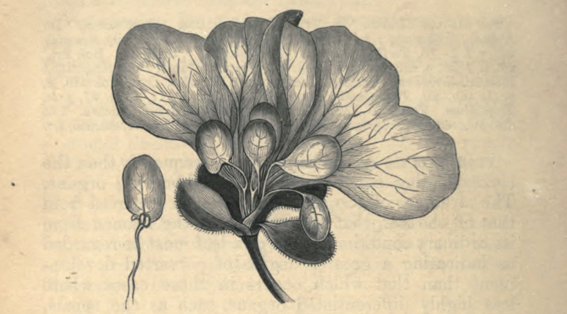 Flower of Petunia, opened to show the stamens partially replaced by stalked leaves